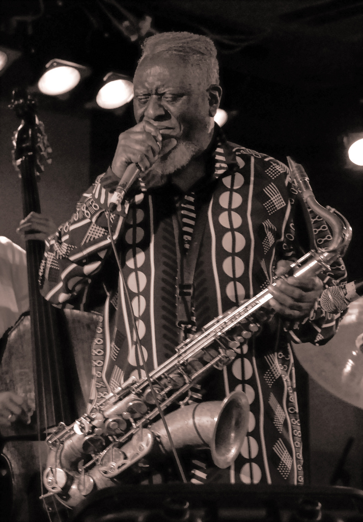 Pharoah Sanders in December of 2006